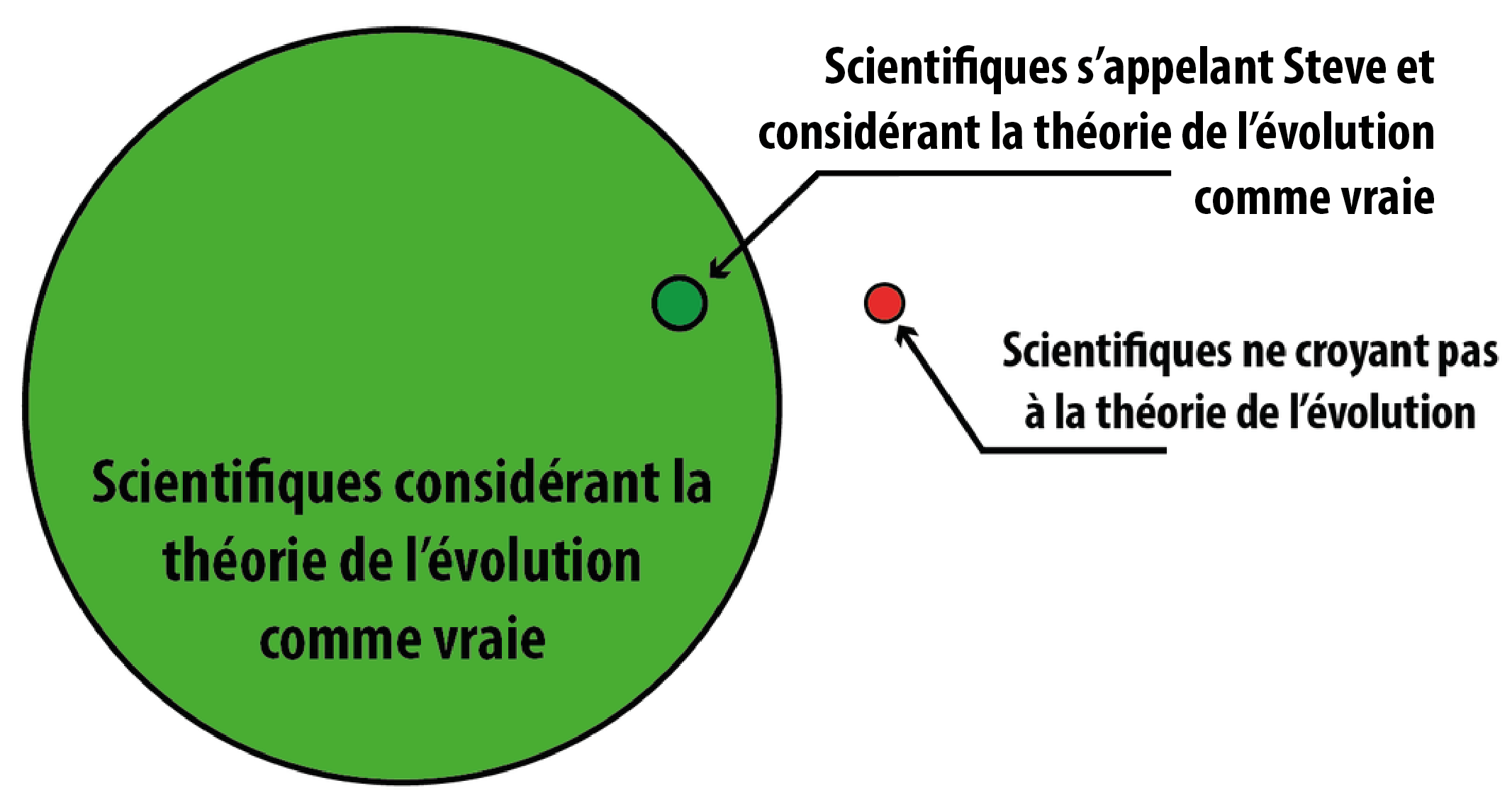 Illustration of project Steve principle, the number of steve believing in Evolution seems to be higher than the number of scientists liste on any opposing view project